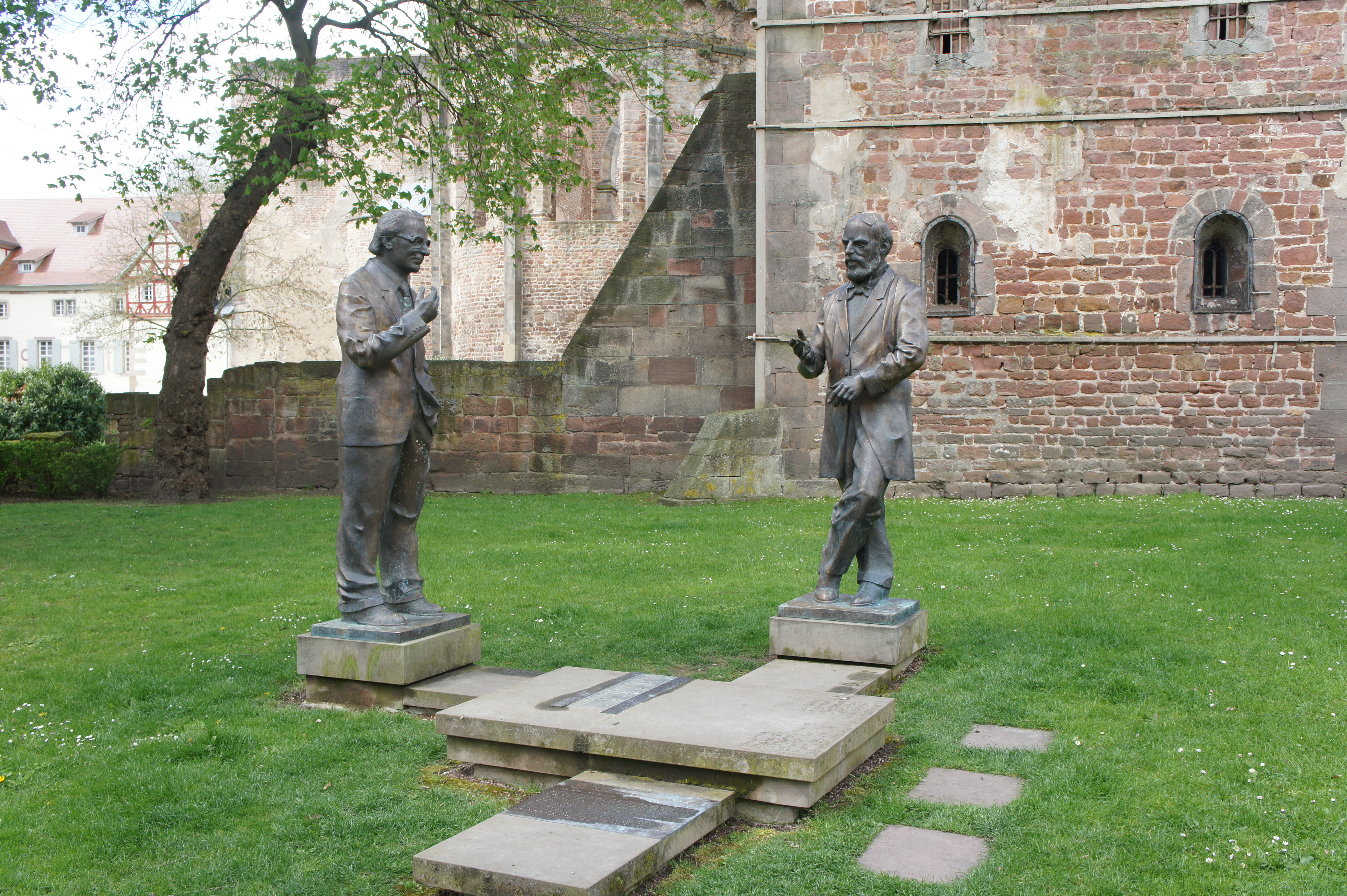 Memorial of Konrad Duden and Konrad Zuse. Konrad Duden (right), German founder of the well-known German language dictionary bearing his name. Konrad Zuse (left), German inventor of the computer. Both former citizens of Bad Hersfeld. The memorial is situated in monastery sector of Bad Hersfeld